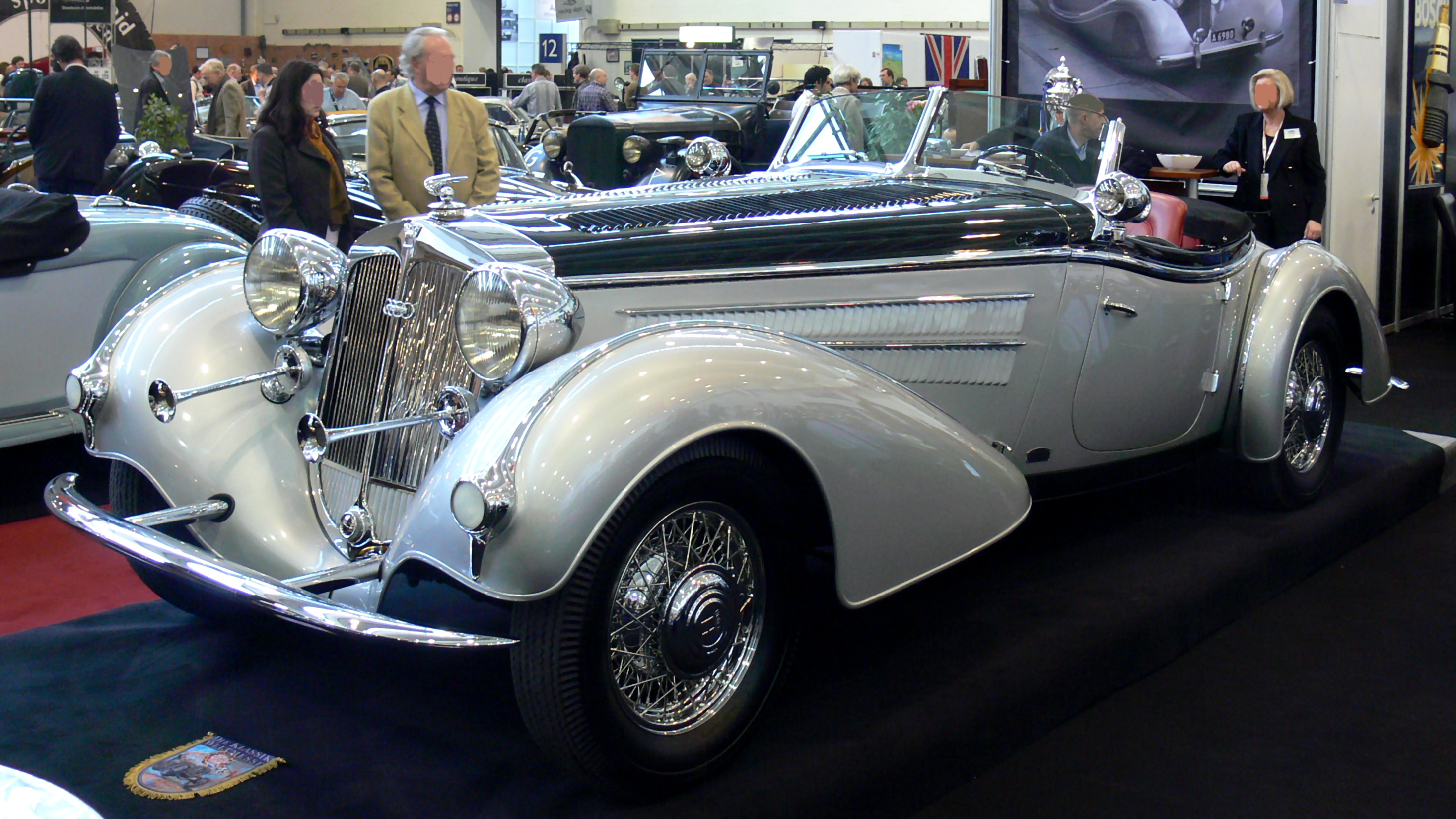 Horch 855 Spezialroadster (1938) at the TechnoClassica 2009 in Essen